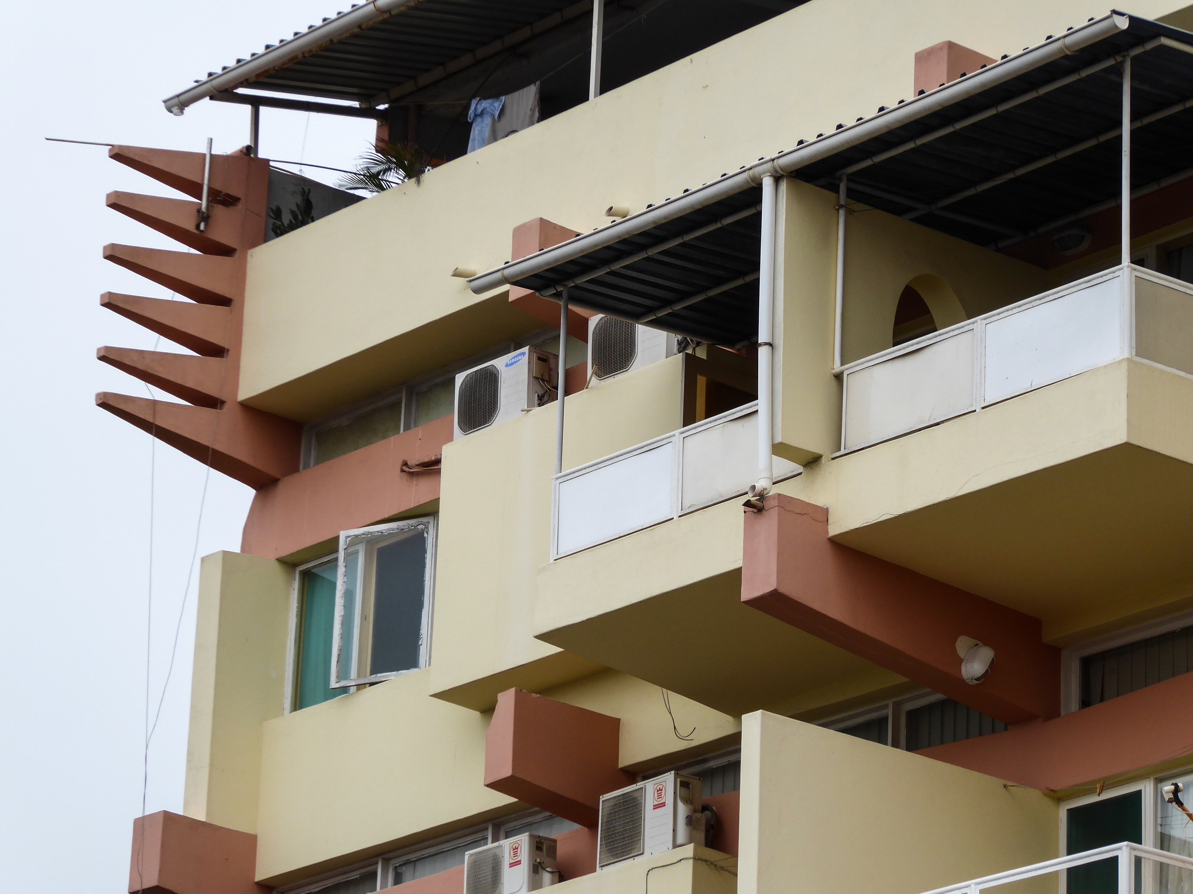 Detail of Prometheus building, by Pancho Guedes, Maputo, Mozambique